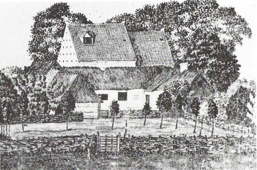 School and church in Godsted, Denmark before 1835